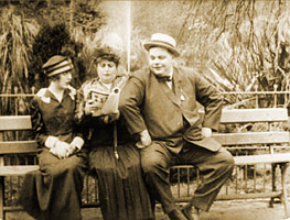 Still from the film Wished on Mabel (1915) with Mabel Normand, Alice Davenport, and Roscoe Arbuckle.